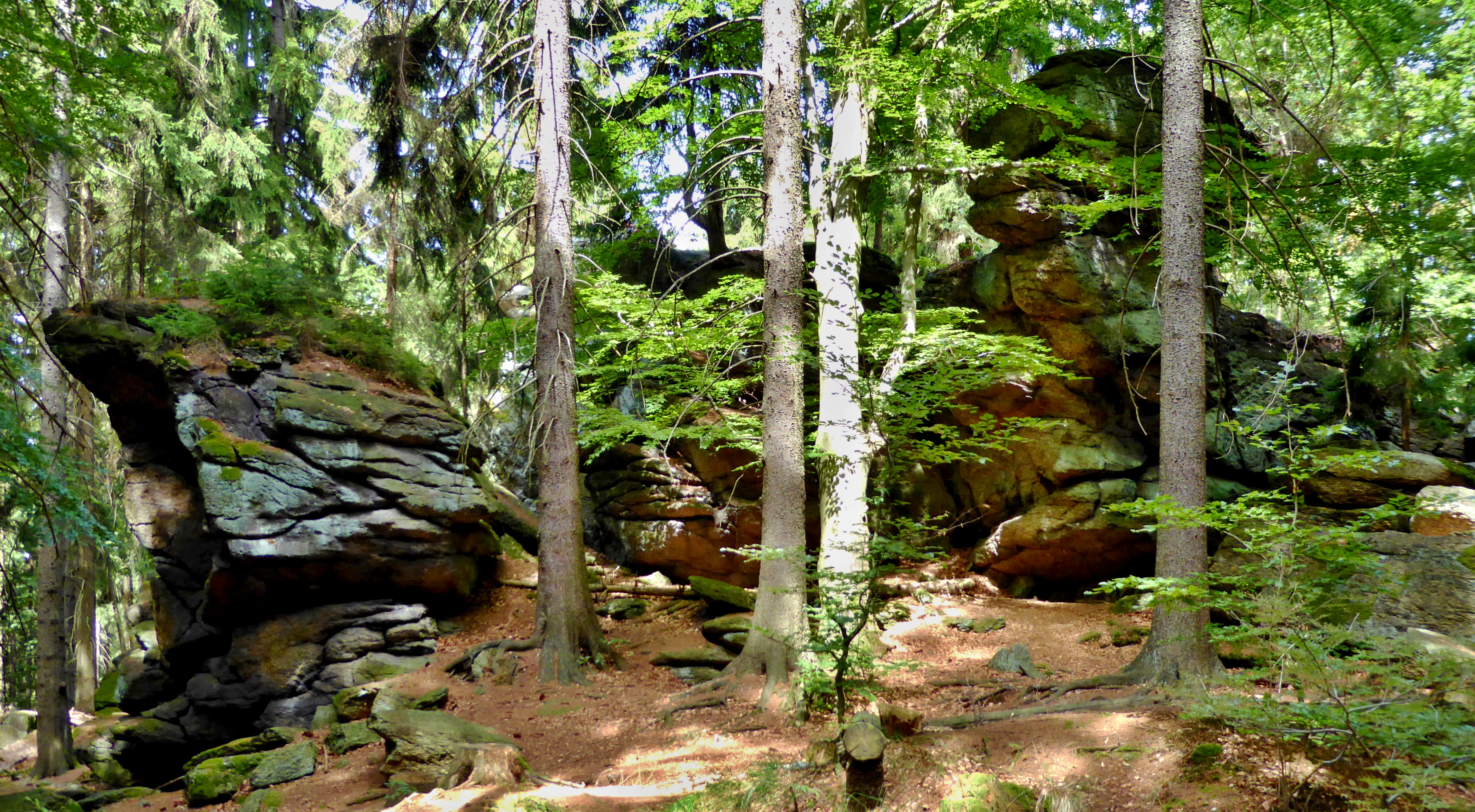 In the photo from left are a rock blocks with name "Spárová" tower and Head (the rock reminiscent of the head) in a group of rocks with the geographical name Petrified Chateau in the geomorphological district "Borovský" Forest. In the Middle Ages, the rock system was used to build a small wooden castle. Petrified Chateau is important geological locality, cultural and natural monument of the Czech Republic (archaeological traces of the fortified settlement and the Slavic settlement). It is located in the cadastral area of town Svratka and is part of the Žďár Hills Protected Landscape Area. A blue touristic route of the Czech Tourists Club leads to the group of rocks (in the section: hunting chateau "Karlštejn" – Petrified Chateau – "Milovské Perničky").Photo-location: Czechia, Vysočina Region, the town of Svratka, a group of rocks called Petrified Chateau (azimuth 355°).